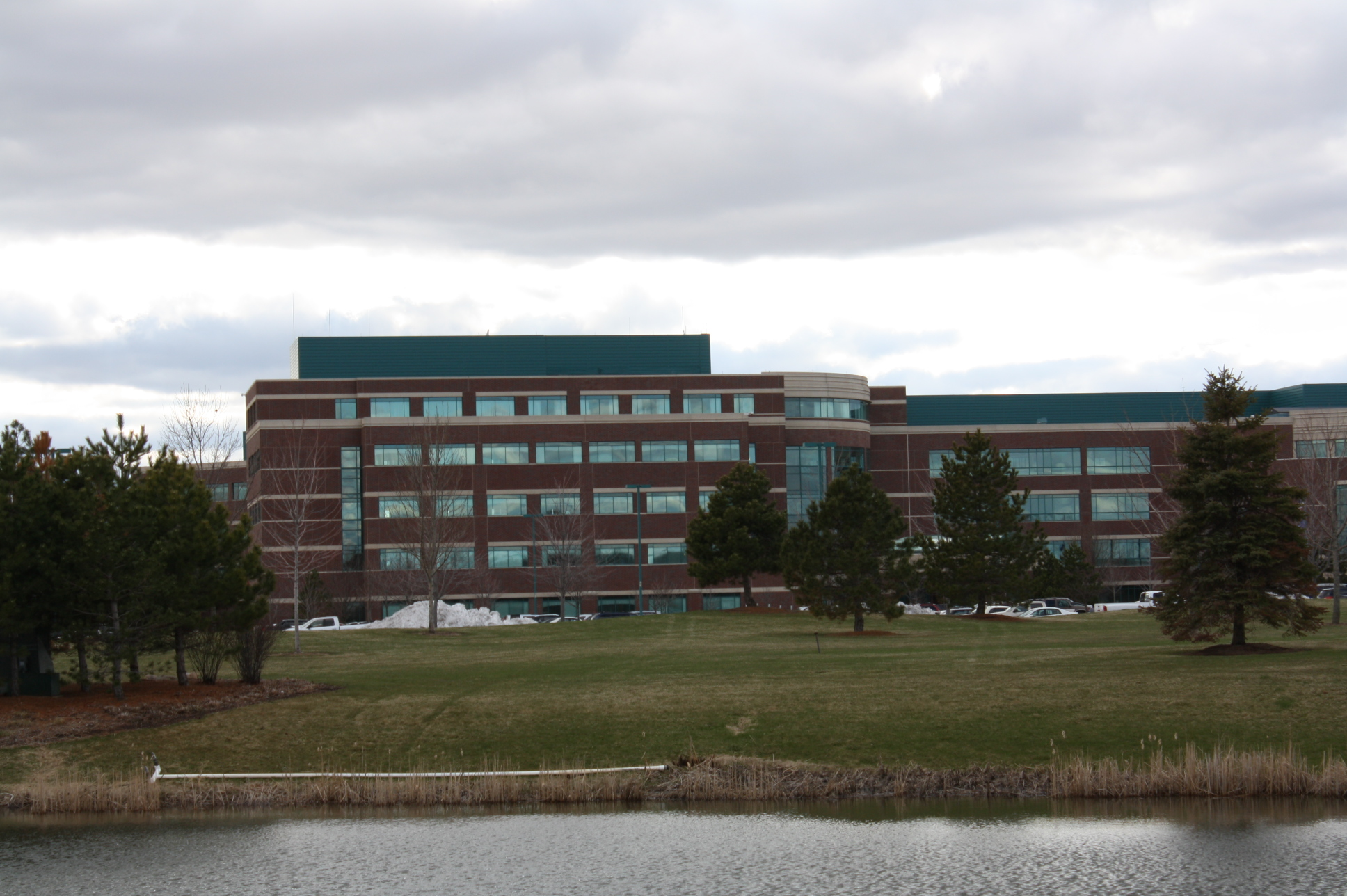 The Aurora BayCare Medical Center, an Aurora Health Care hospital in Green Bay, Wisconsin.